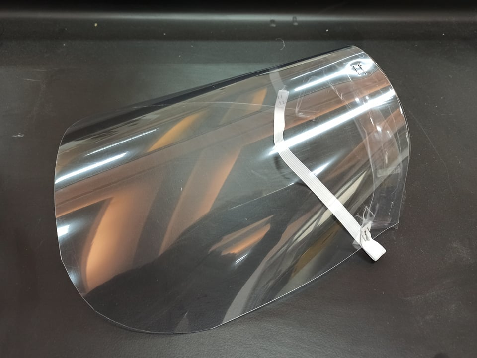 Red Spartan Faceshield by LIKHA FabLab